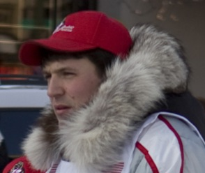 Iditarod 2006, Official start in Anchorage, AK. Musher Ramy Brooks.